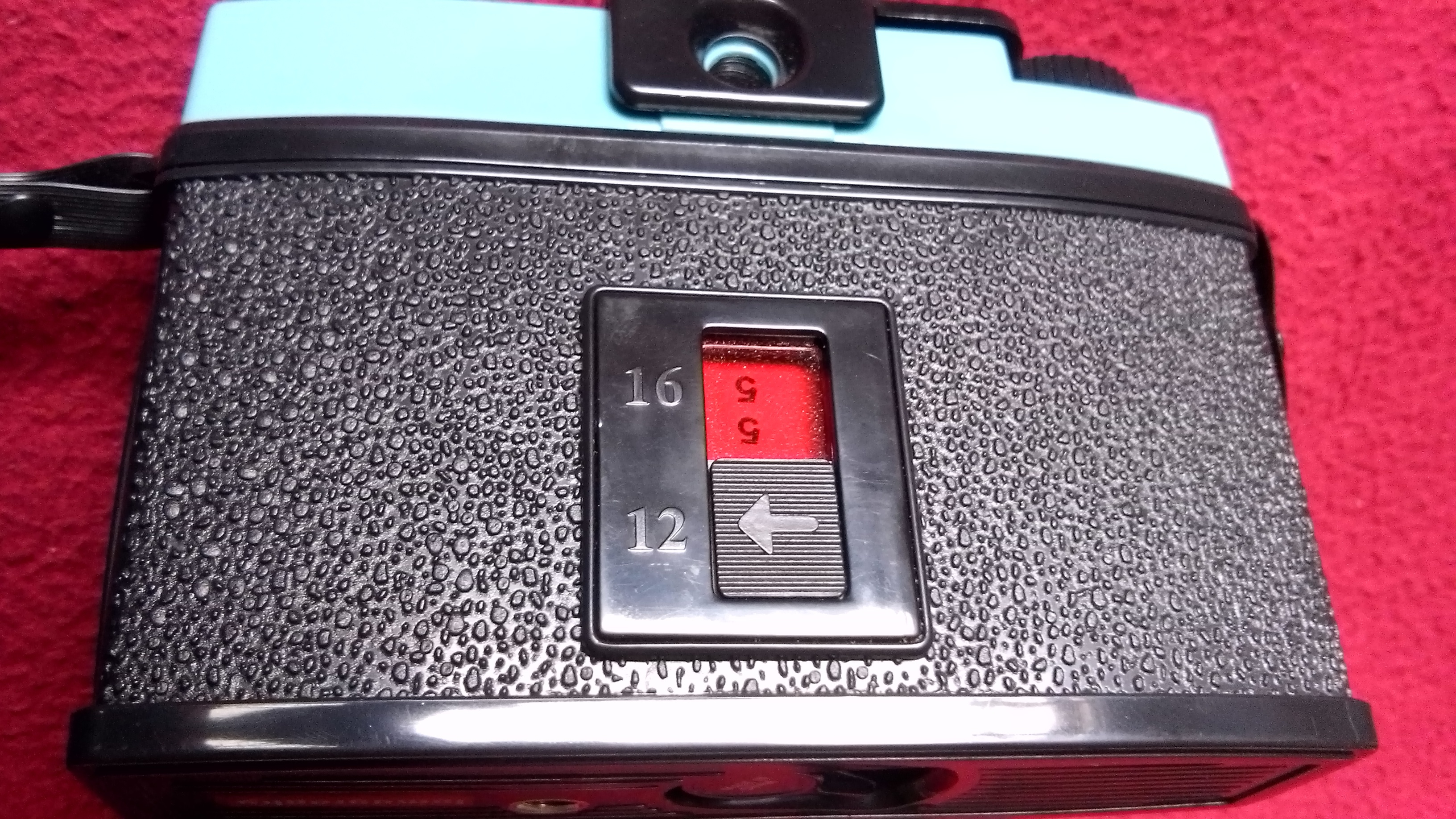 120mm film back for Diana F+. A 12 shot setting (shown) in the picture yields lesser number of pictures, but the vignetting is high for each frame for such a setting. A frame has to be inserted for the 16 shot setting inside the back before loading the film. The vignetting is lesser in such a setting.